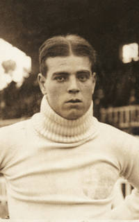 Goalkeeper Ricardo Zamora while playing for FC Barcelona.